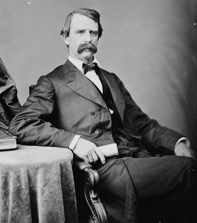 Erastus Wells, US Representative from Missouri